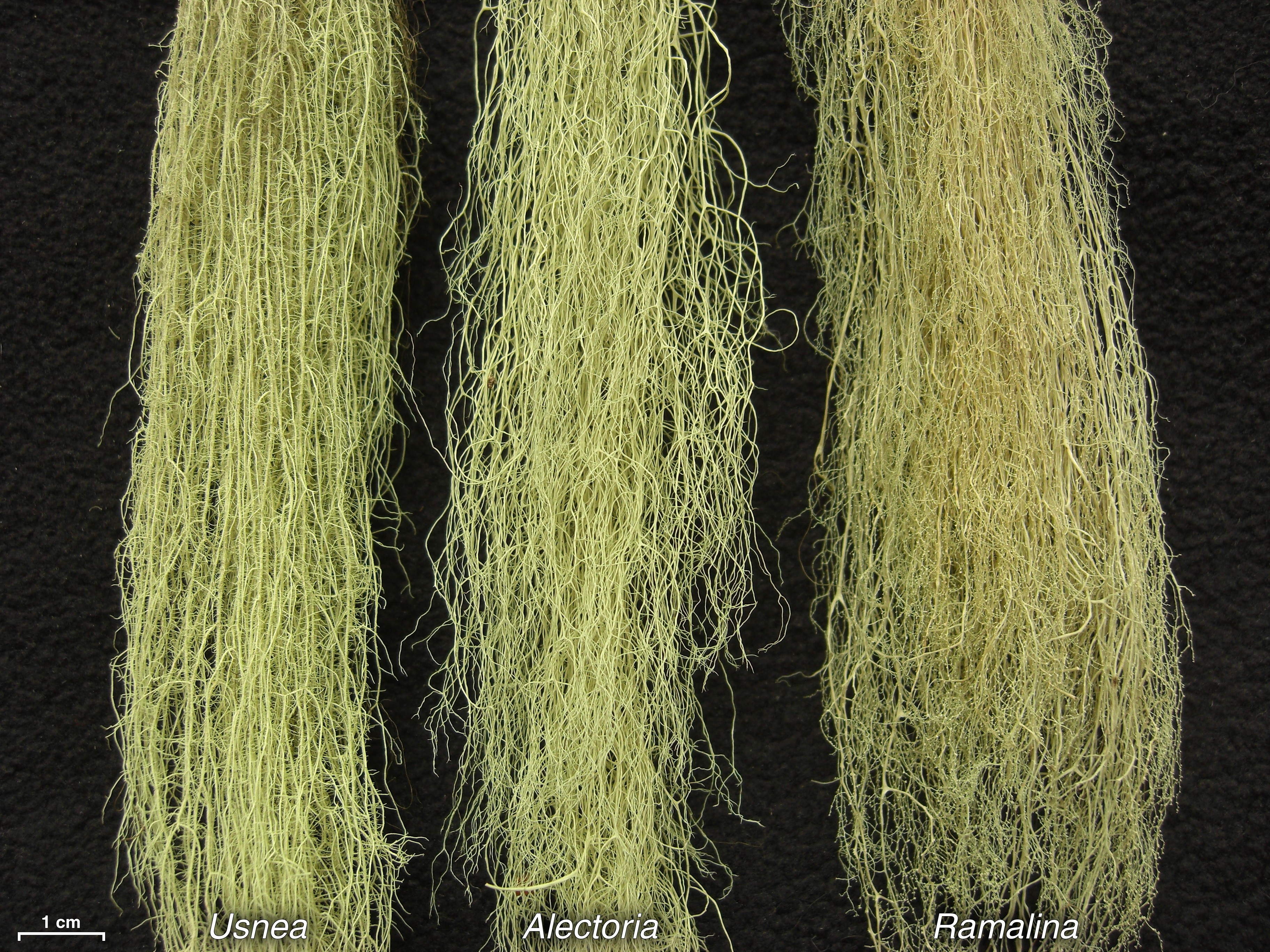 Three species of beard lichen from the same area, left to right: Usnea scabrata Alectoria sarmentosa Ramalina thrausta